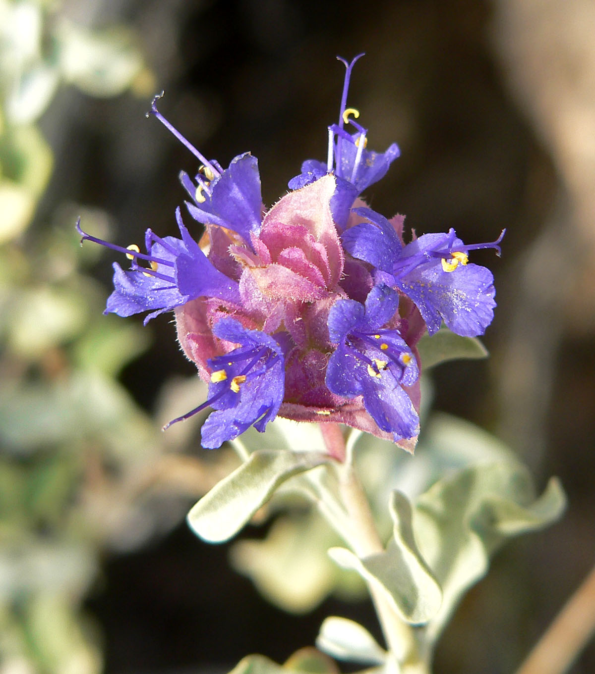 Salvia dorrii in canyon off west end of Cheyenne Ave, Las Vegas, Spring Mountains, southern Nevada